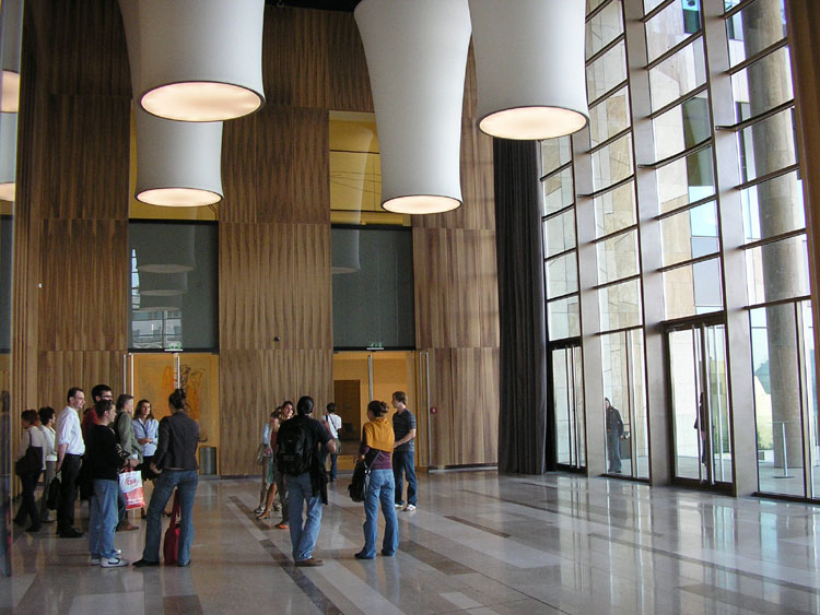 The Palace of Arts, Budapest